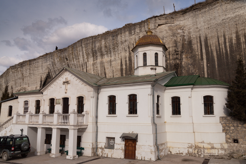 Chapel by Inkerman Cave Monastery